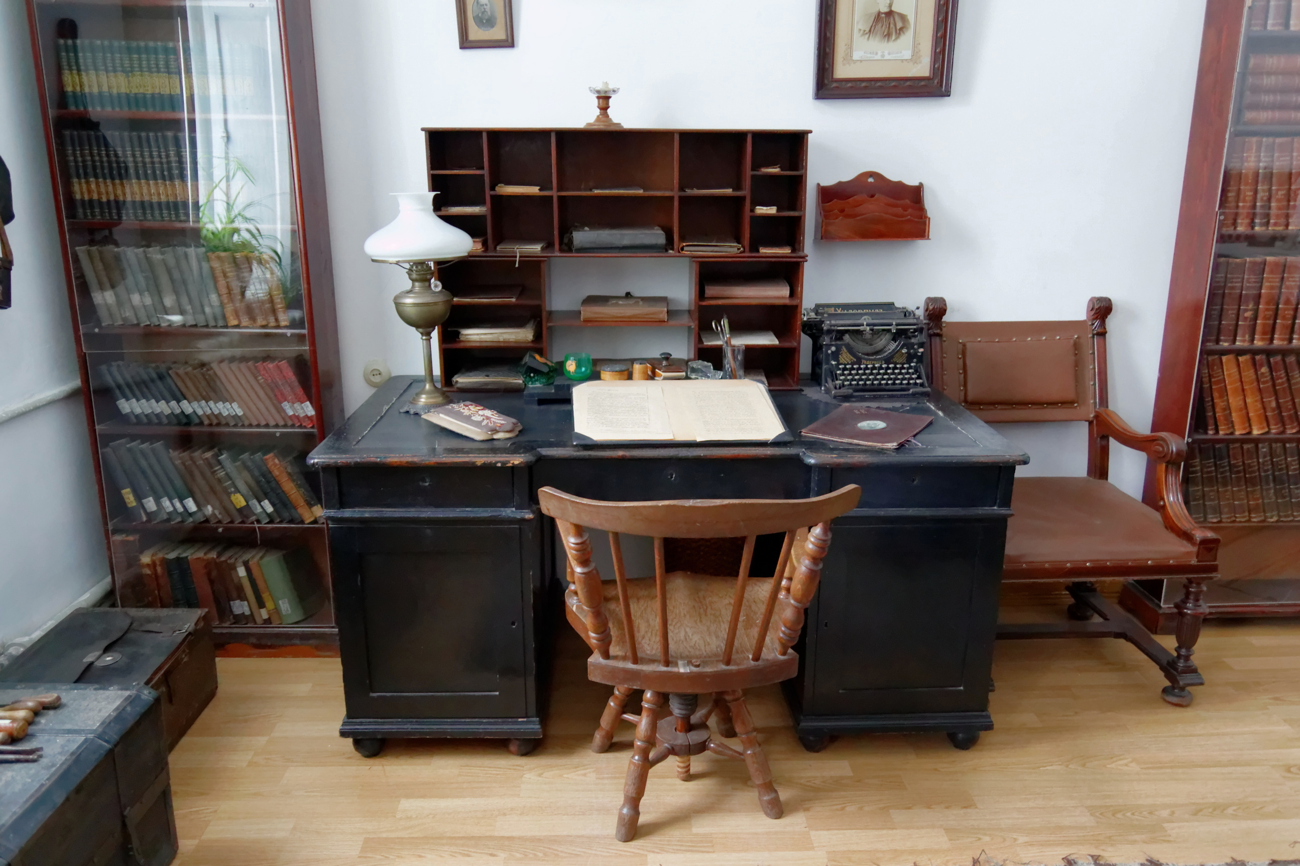 Poltava. Museum Estate of Vladimir Korolenko